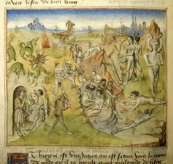 Livres des Merveilles du Monde (aka Secretz de la Nature), manuscript of Morgan Library M.461, fol. 26v: "Ethiopia" (Upper left) 4 reptiles incl. dragon, wivern beside flames, horned eagle, five people before crowned dog: (Lower left) 2 troglodytes hold lizards. Bearded man, with club on right shoulder, beside two acephalus, nude, one reaching to touch head of man beside crowned king. (Center) 2 naked men sitting beside 2 bearded men. (Right) naked man, gestures toward nude female with animal tail, accompanied by hybrid figure with hooves. Another nude hybrid man, with large ears [panotti]. In foreground, two nude men crawl (compodes)". (abridged from CORSAIR catalog description)